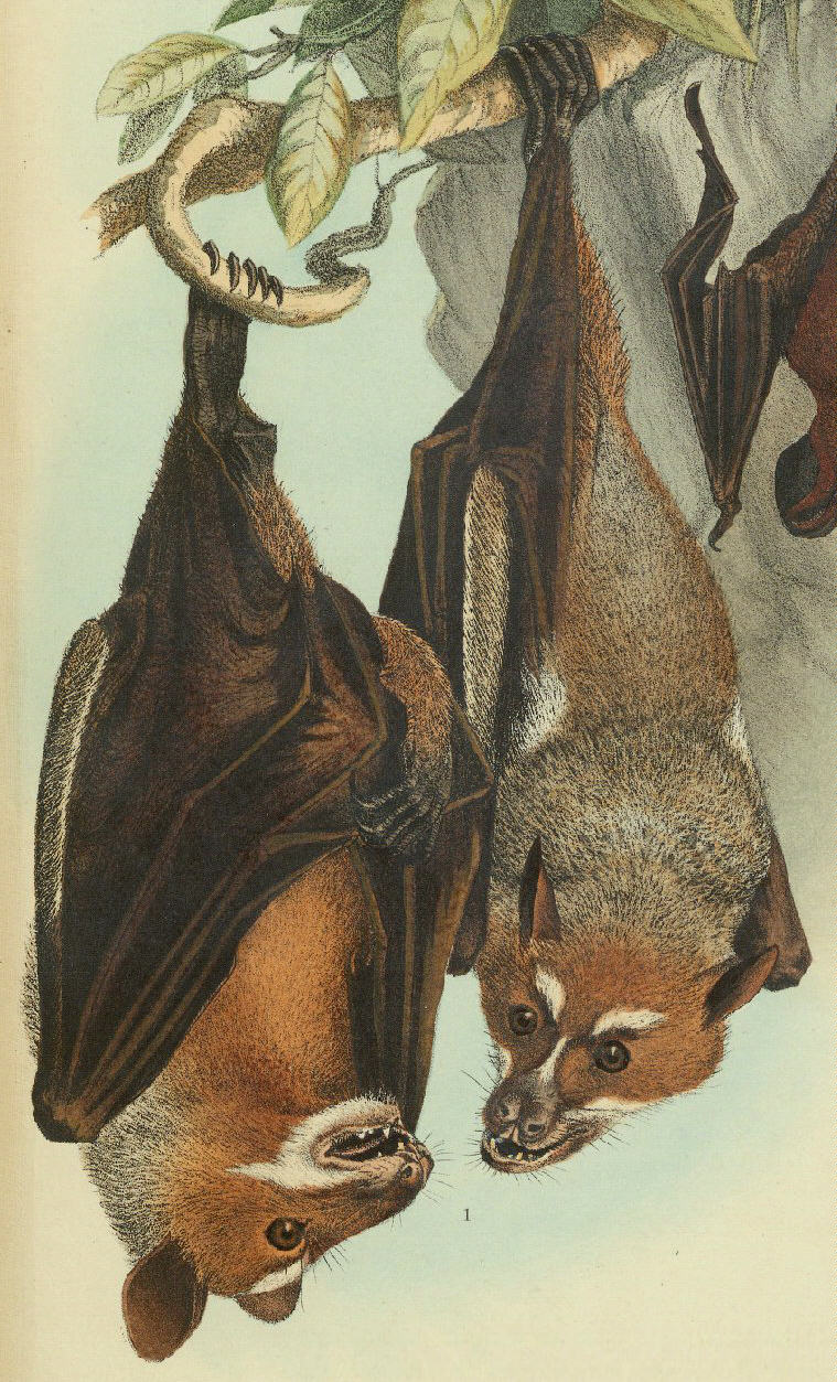 Illustration from article: Saughetier vom Celebes und Philippinen Archipel